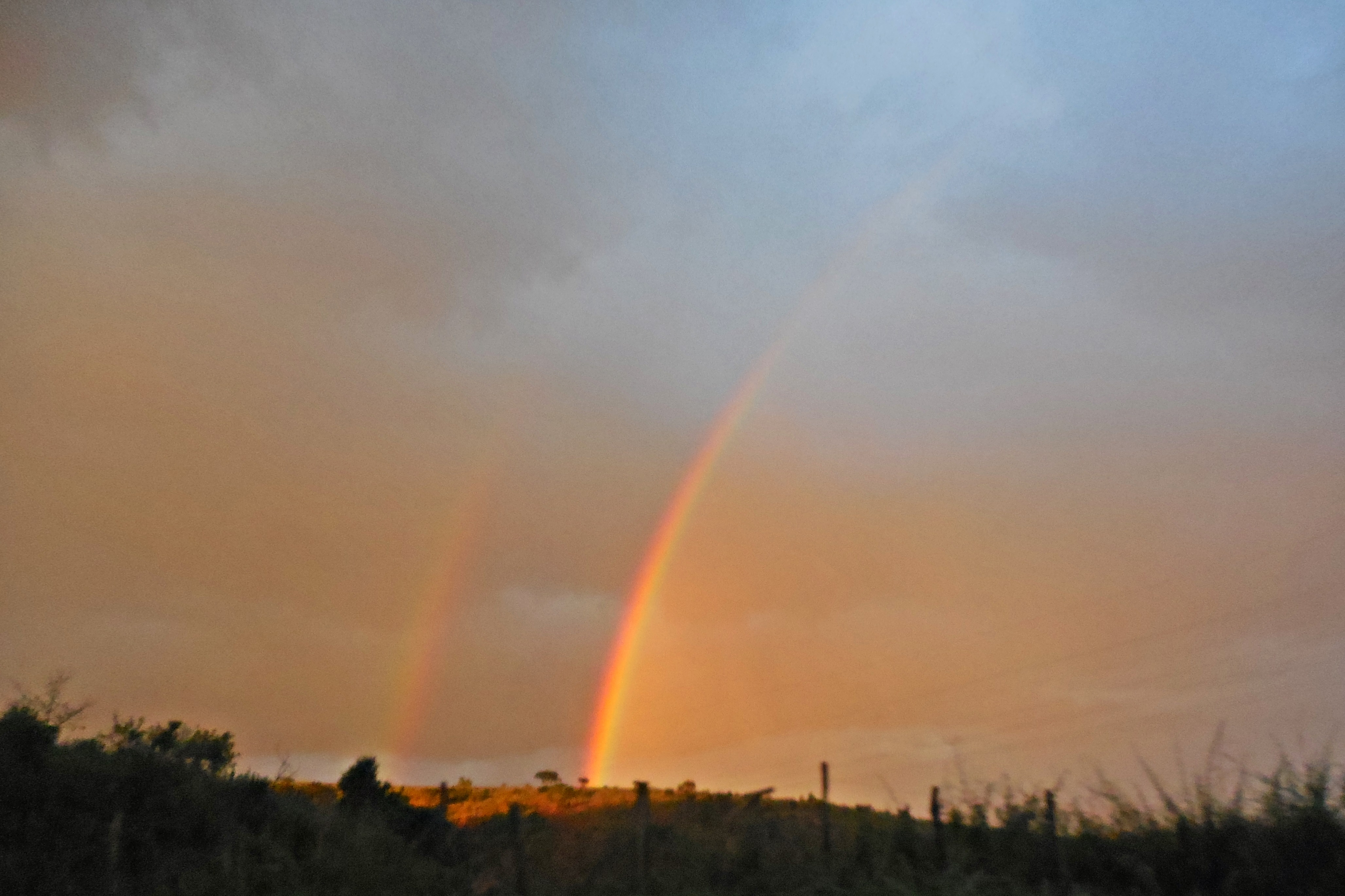 A double rainbow at the BR-116 in Campanário, Minas Gerais, Brazil.